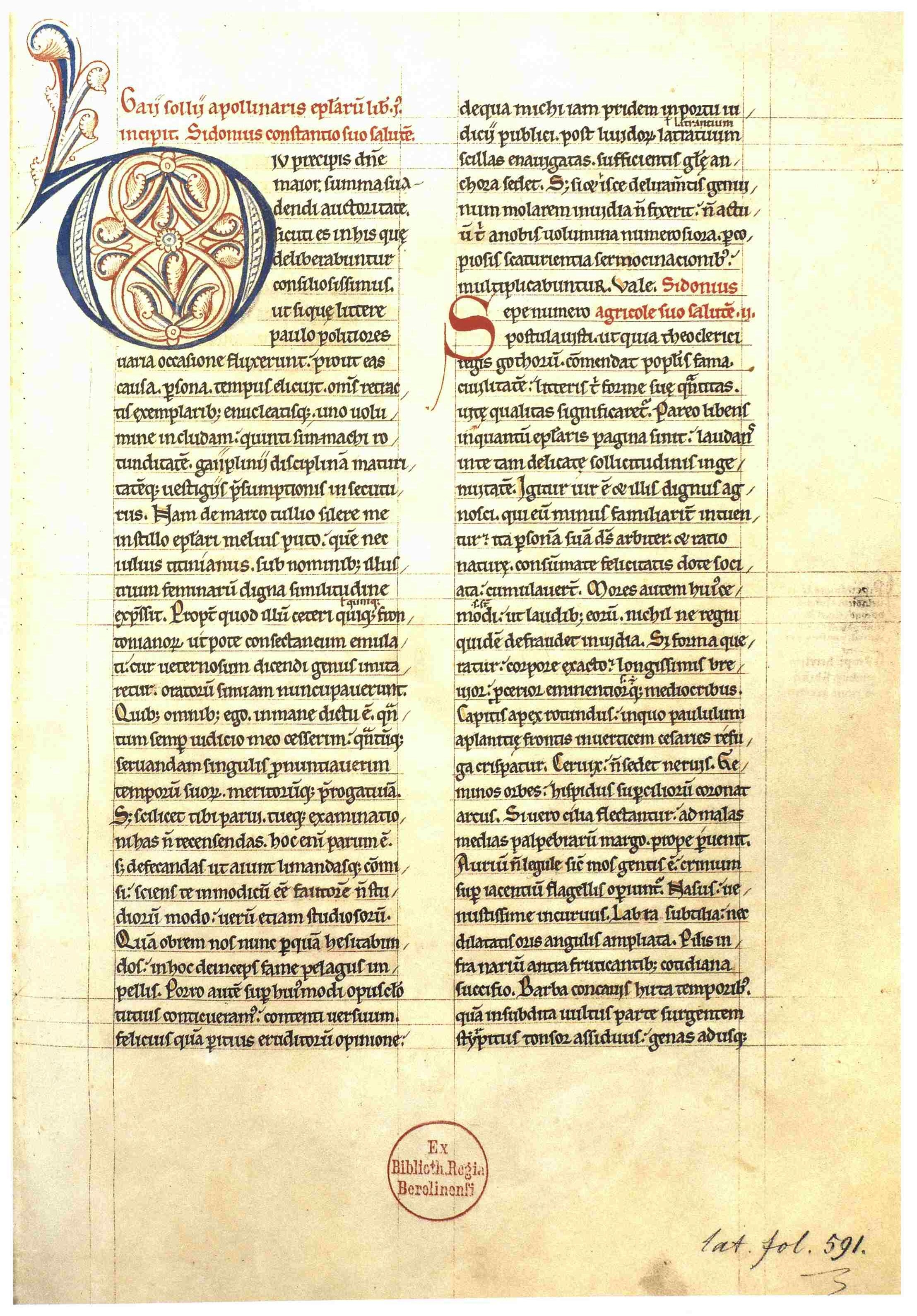 The beginning of Sidonius’ letters in the manuscript Berlin, Staatsbibliothek, Ms. lat. fol. 591, fol. 1r.